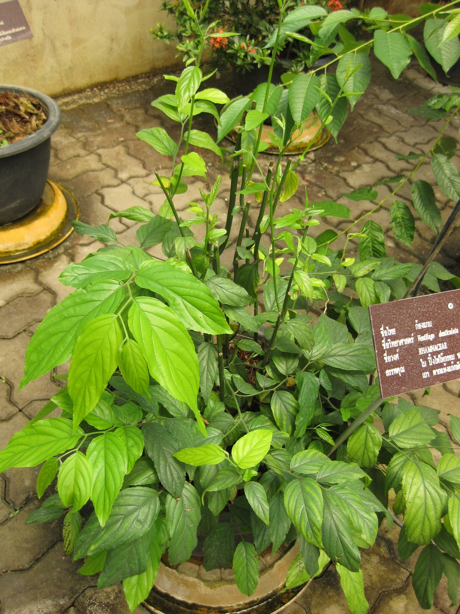 Ventilago denticulata Willd. Photographed at the Queen Sirikit Botanic Garden (Chiang Mai Province, Thailand) in March